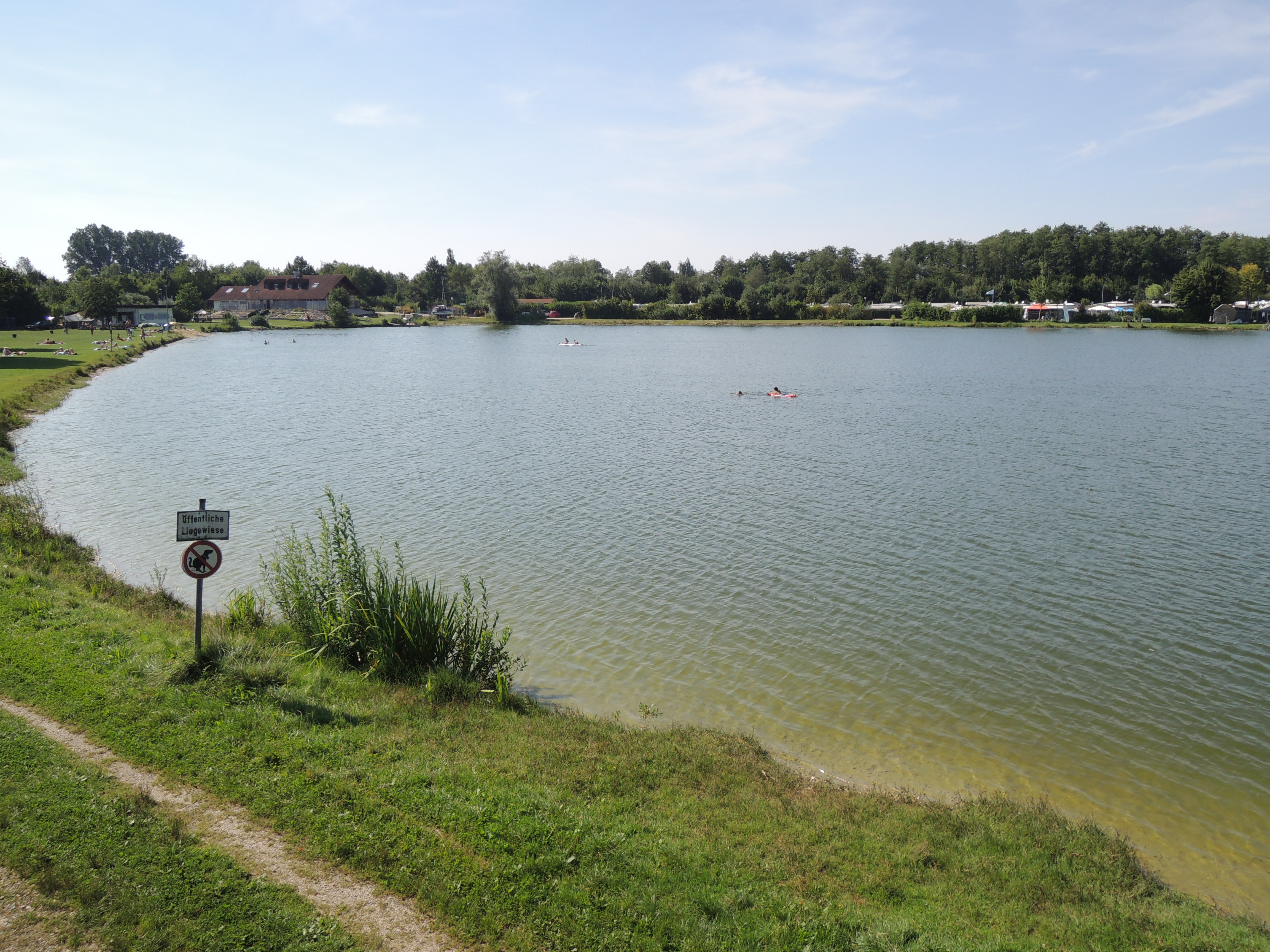 Radersdorfer Baggersee (Radersdorf, Kühbach, County: Aichach-Friedberg, Germany)